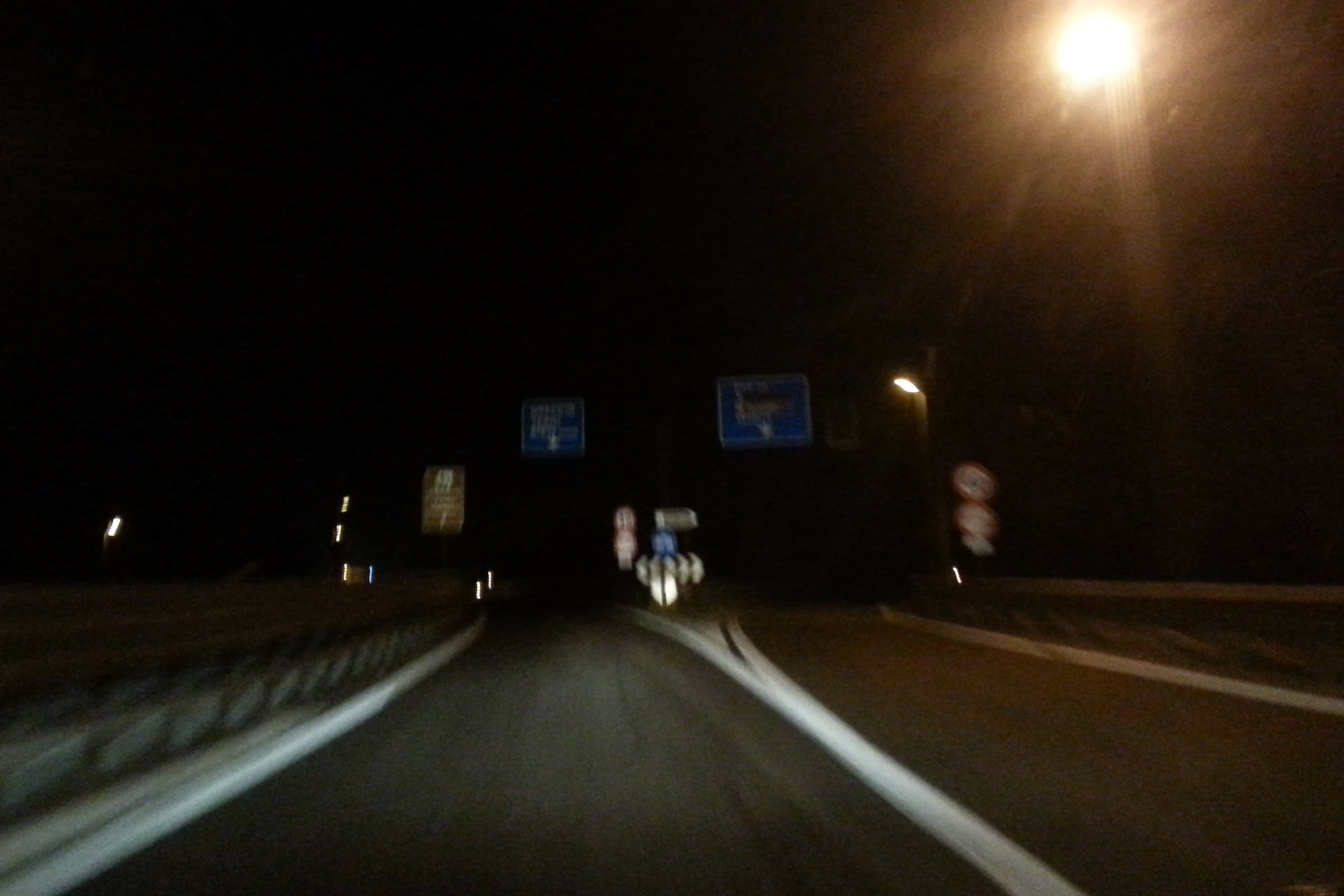 Italian State Road n. 4 Via Salaria - Colle Giardino tunnel, near Rieti, North-heading tunnel